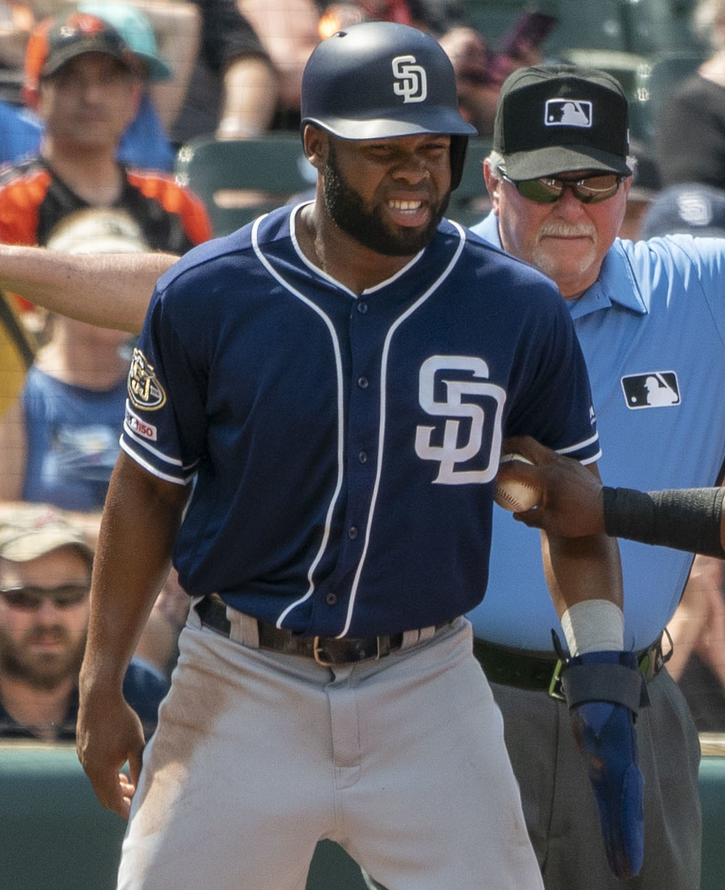 Manuel Margot, Dana DeMuth, Hanser Alberto during a 2019 game between the San Diego Padres and Baltimore Orioles at Camden Yards in 2019